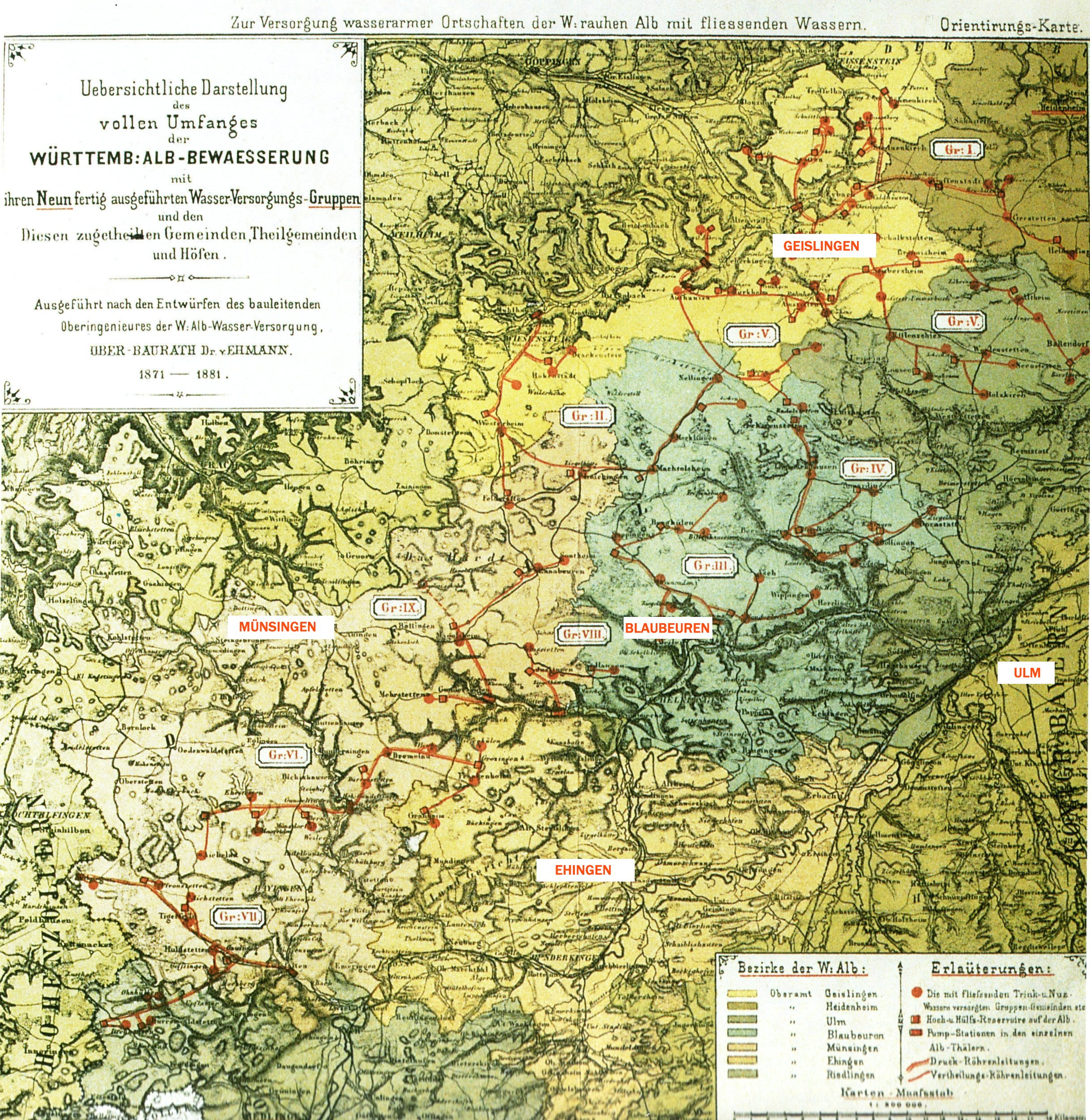 Swabian Alb, Germany, map depicting the network of drinking water supply, first 9 groups, status quo 1881. Original scale 1:200.000